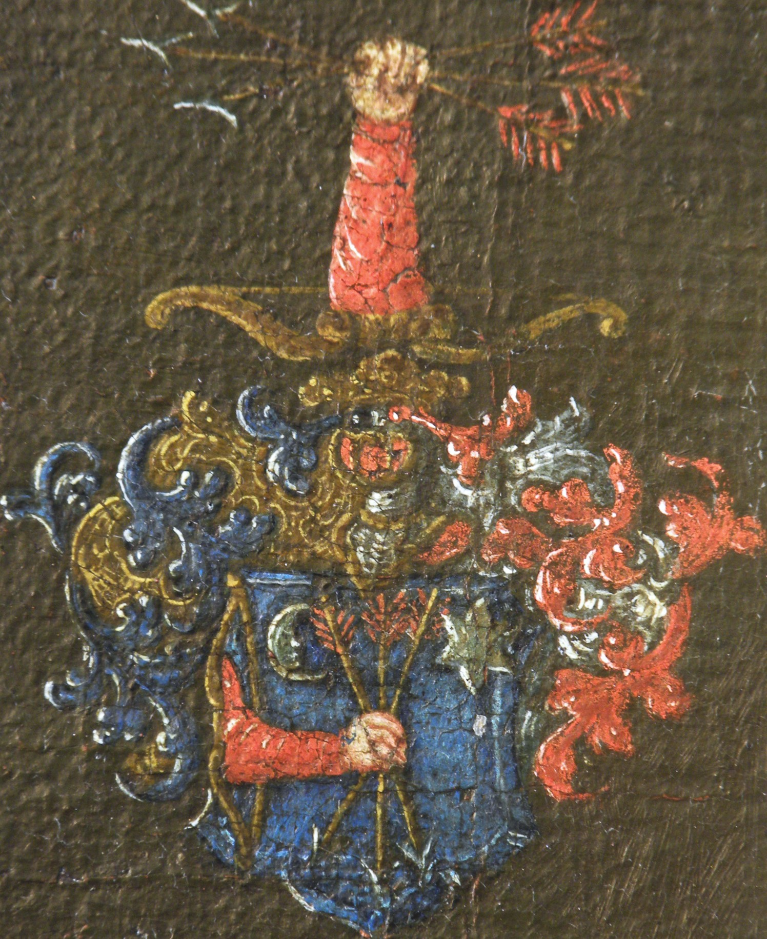 Coat of arms of Mihály Zerdahelyi. Painting (UH 11514) exhibited in Bratislava Castle Gallery. Inscription: "GENEROSUS D. Michael Zerdahelyi // de Nitra Zerdahely prius Cottus Nitriens // Notarius & Vice Comes dei... Magister Pro= // thonotarius Palatinalis.".